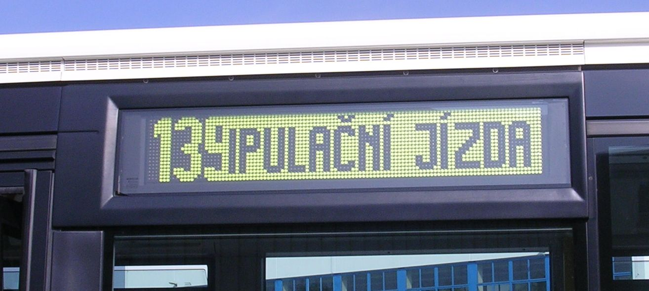 Řepy, Prague, the Czech Republic. Open Doors Day in Řepy bus depot. Iribus Citybus information board. The sign display was in the middle of changing at the moment the photo was taken, so it is showing part of one message and part of a different message. - Google Maps - Google Earth